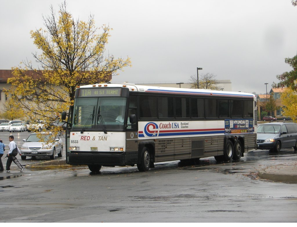 Image of a Rockland Coaches bus at Nanuet Mall, taken October 2007. Cropped from File:Rockland Coaches Sampler.jpg by User:AEMoreira042281, cropped as the other portion of the sampler is no longer valid.